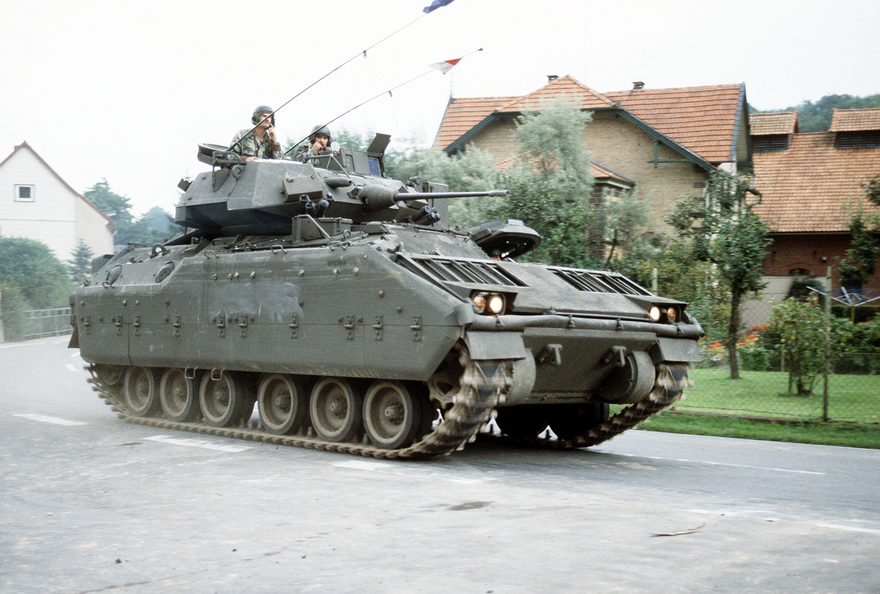 A right side view of an M2 Bradley infantry fighting vehicle moving along a road during exercise Reforger '85.